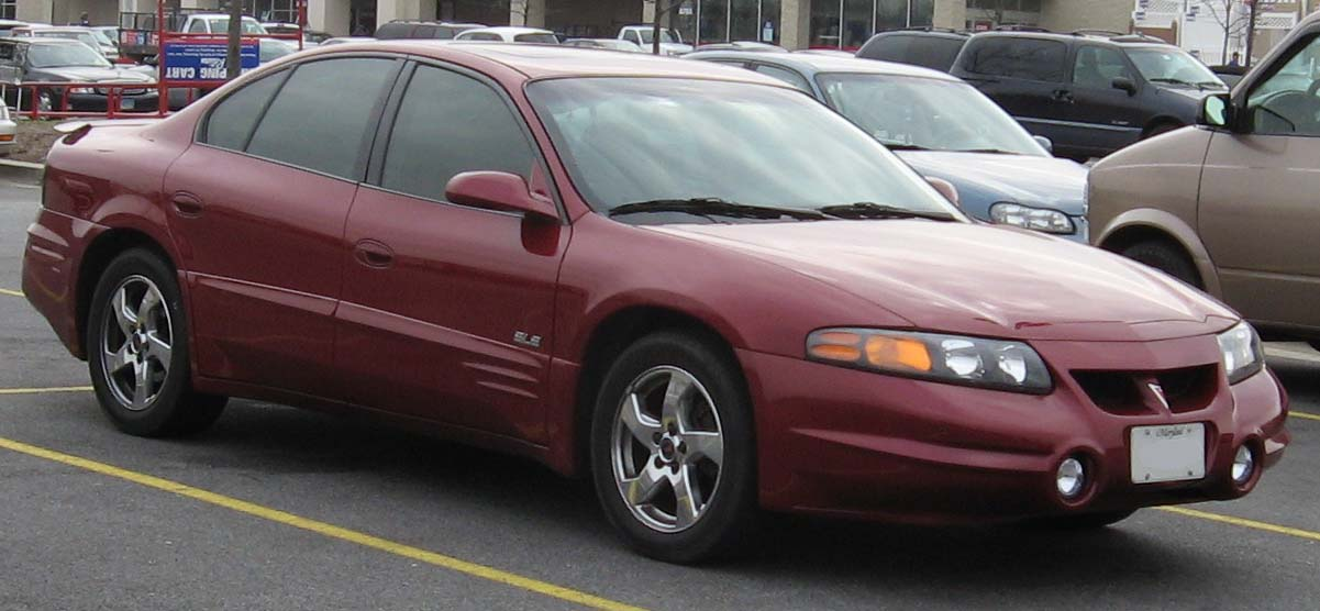 2000-2004 Pontiac Bonneville photographed in USA.